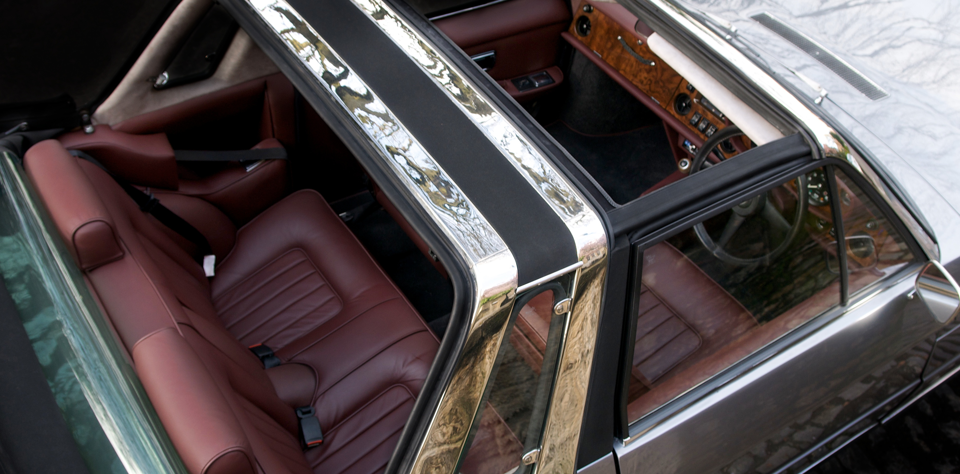 Bristol 412 S2 designed by Zagato, built by Bristol Cars of Filton, Bristol. 5.9 Liter V8 with three speed Torqueflight gearbox. Interior in Connolly leather